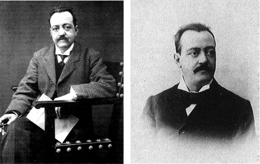 Salvador Calderón y Arana.